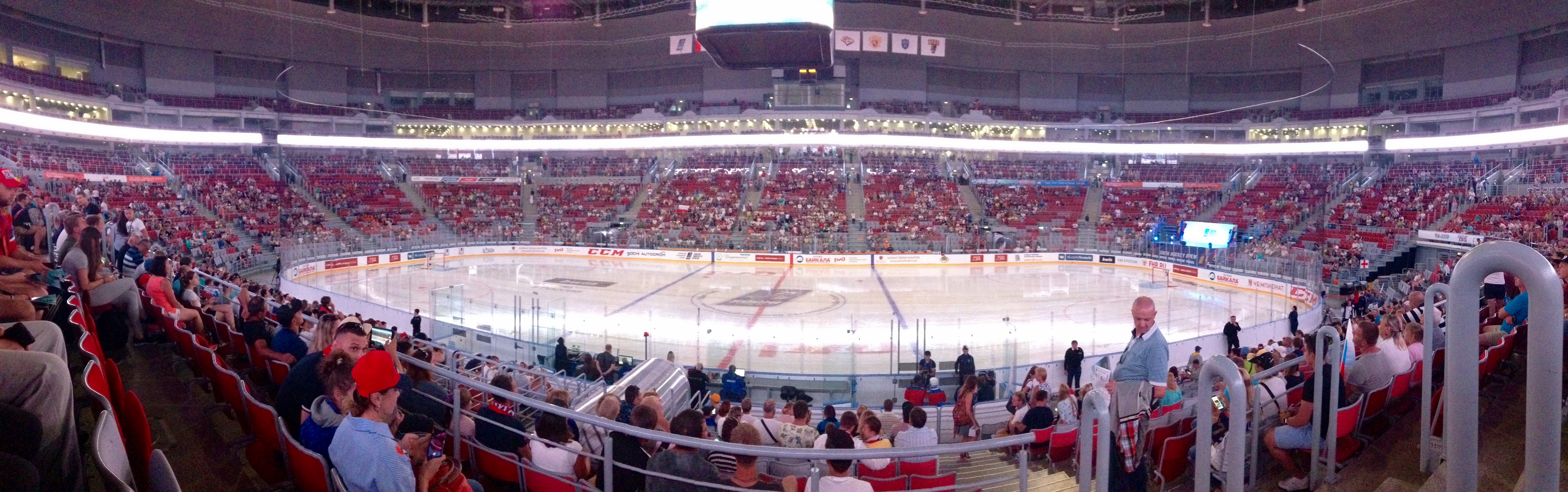 Panorama of Bolshoy Ice Dome (city of Sochi) before the match between Russia men's national olympic team and Canada men's national team at Sochi Hockey Open 2017.